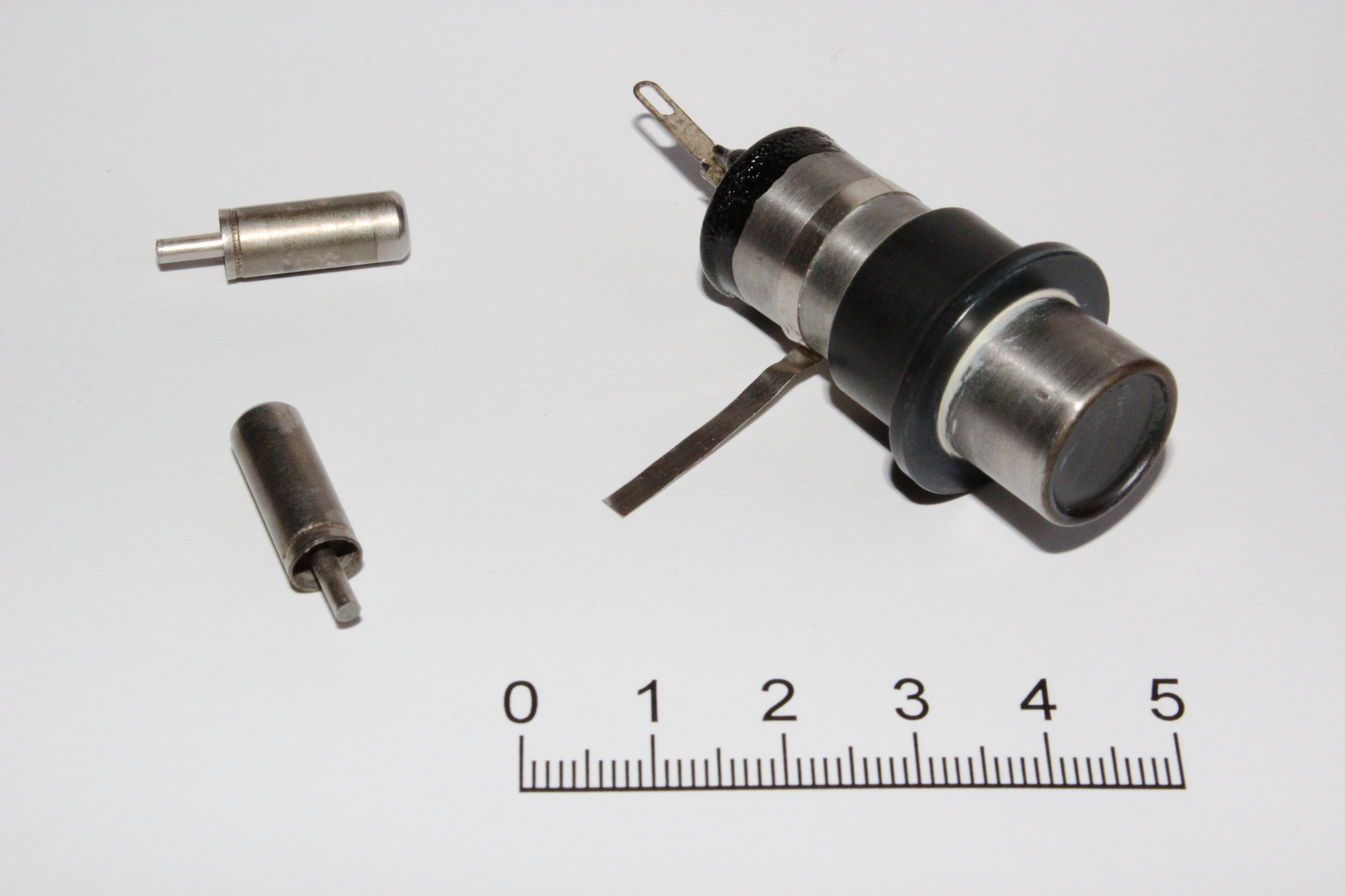 Geiger–Müller tubes.